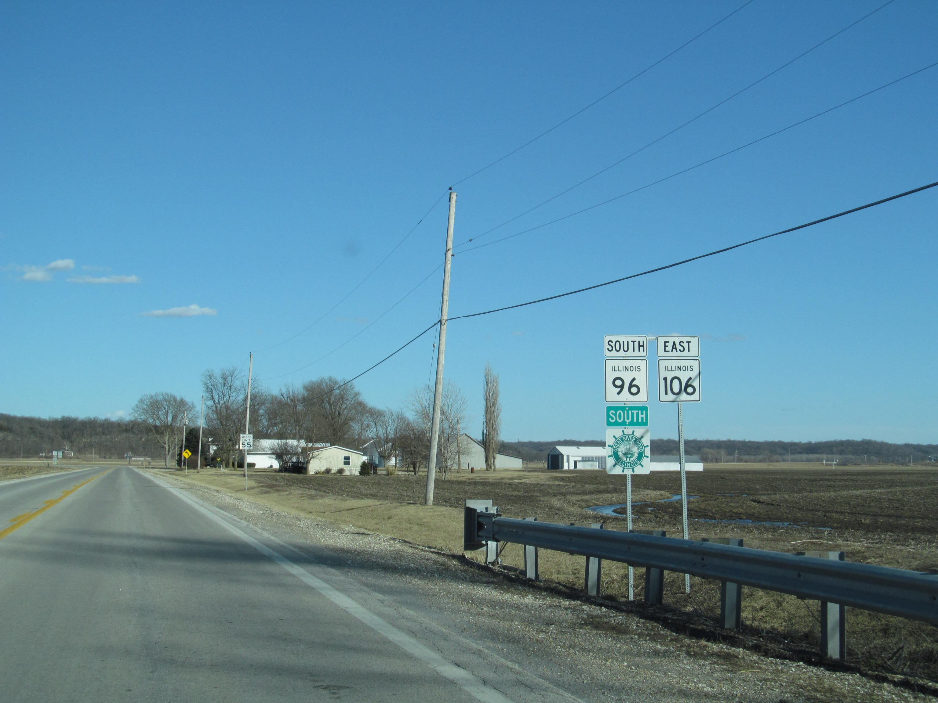 Illinois Routes 96 and 106 concurrency